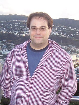 Joel Spolsky on Mount Victoria